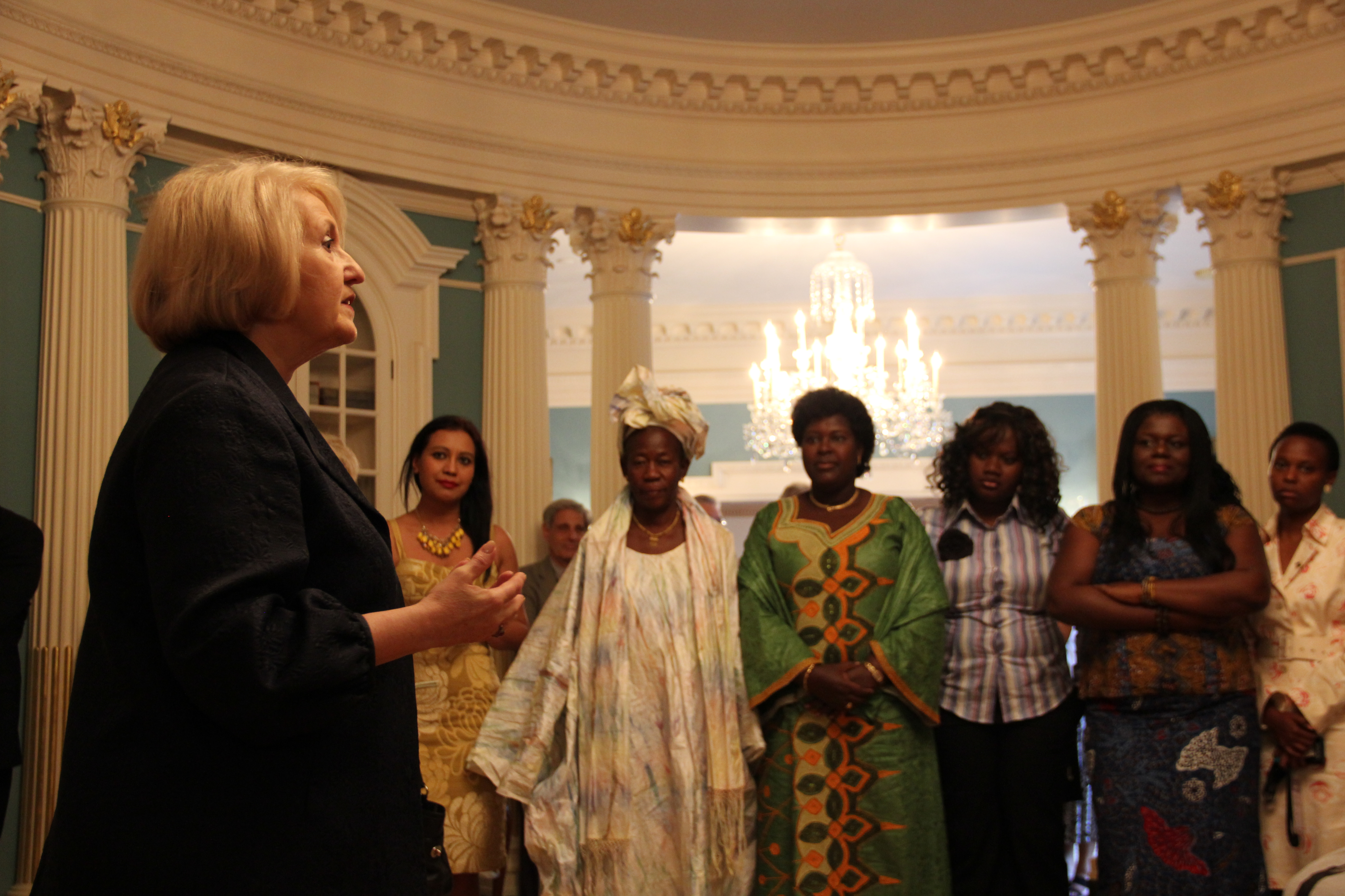 Ambassador-at-Large for Global Women's Issues Melanne Verveer greets participants in the African Women's Entrepreneurship Program at the Department of State in Washington, D.C. on June 14, 2012. [State Department photo/ Public Domain]